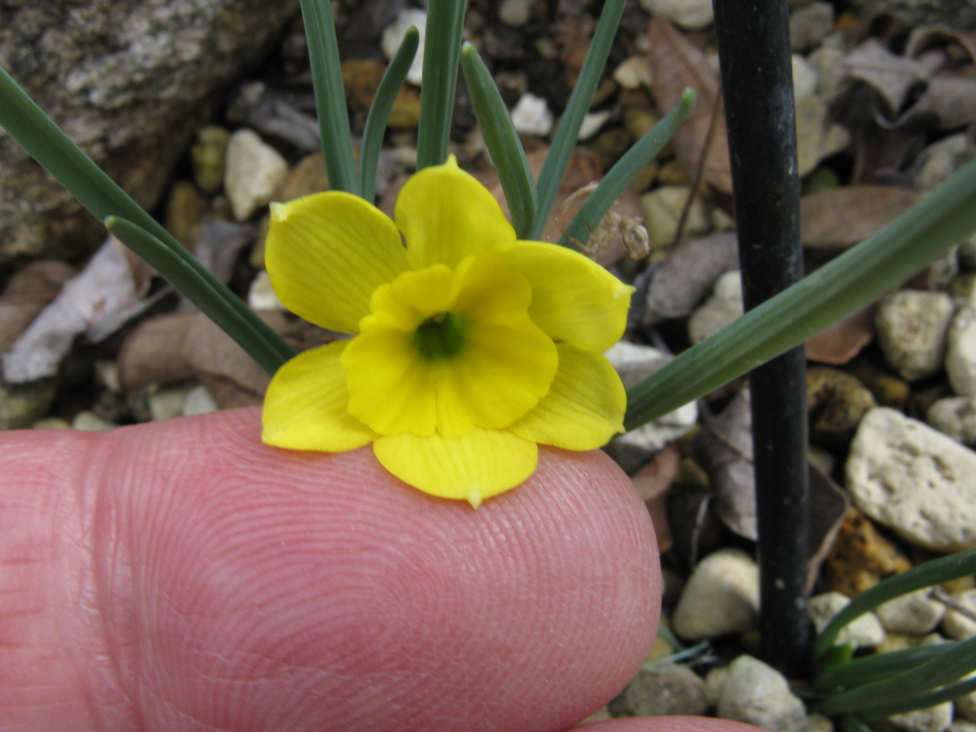 Narcissus rupicola Place:Osaka Prefectural Flower Garden,Osaka,Japan